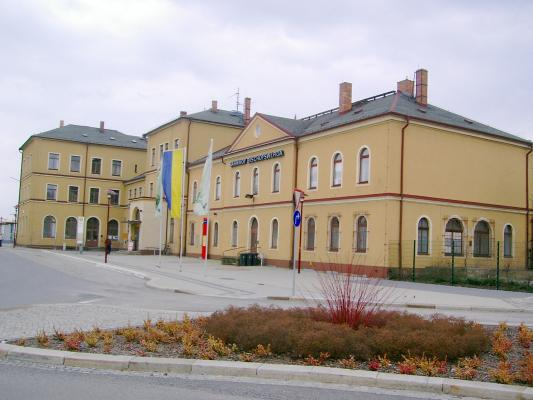 Train station in Bischofswerda in Saxony, Germany. Photo taken 2006.